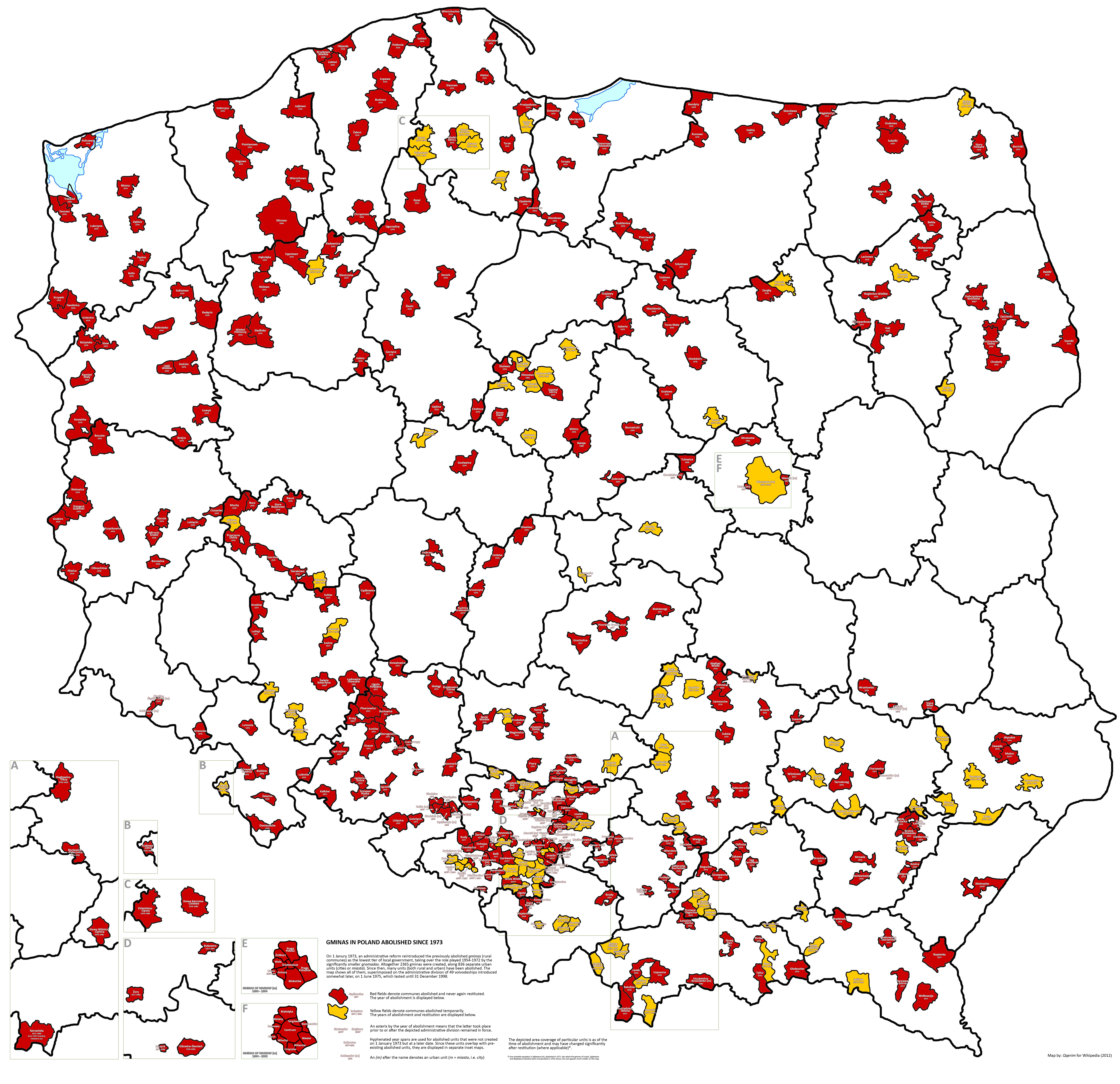 On 1 January 1973, an administrative reform reintroduced the previously abolished gminas (rural communes), taking over the role played 1954-1972 by the significantly smaller gromadas. Altogether 2365 gminas were created, along 836 sepaarte urban units (cities or miasta). Since then, many units (both rural and urban) have been abolished. The map shows all of them, superimposed on the administrative division of 49 voivodeships introduced somewhat later, on 1 June 1975, which lasted until 31 December 1998. • Red fields denotes communes abolished and never again restitued. The year of abolishment is displayed below the unit's name. • Yellow fields denote communes abolished temporarily. The years of abolishment and restitution are displayed below the unit's name. • An asterix by the year of abolishment means that the latter took place prior to or after the depicted administrative division remained in force. • Hyphenated year spans are used for abolished units that were not created on 1 January 1973 but at a later date. Since these units overlap with pre-existing abolished units, they are displayed in separate inset maps. • An (m) after the name denotes an urban unit (m = miasto; i.e. city) The depicted area coverage of particular units is as of the time of abolishment and may have changed significantly after restitution (where applicable).